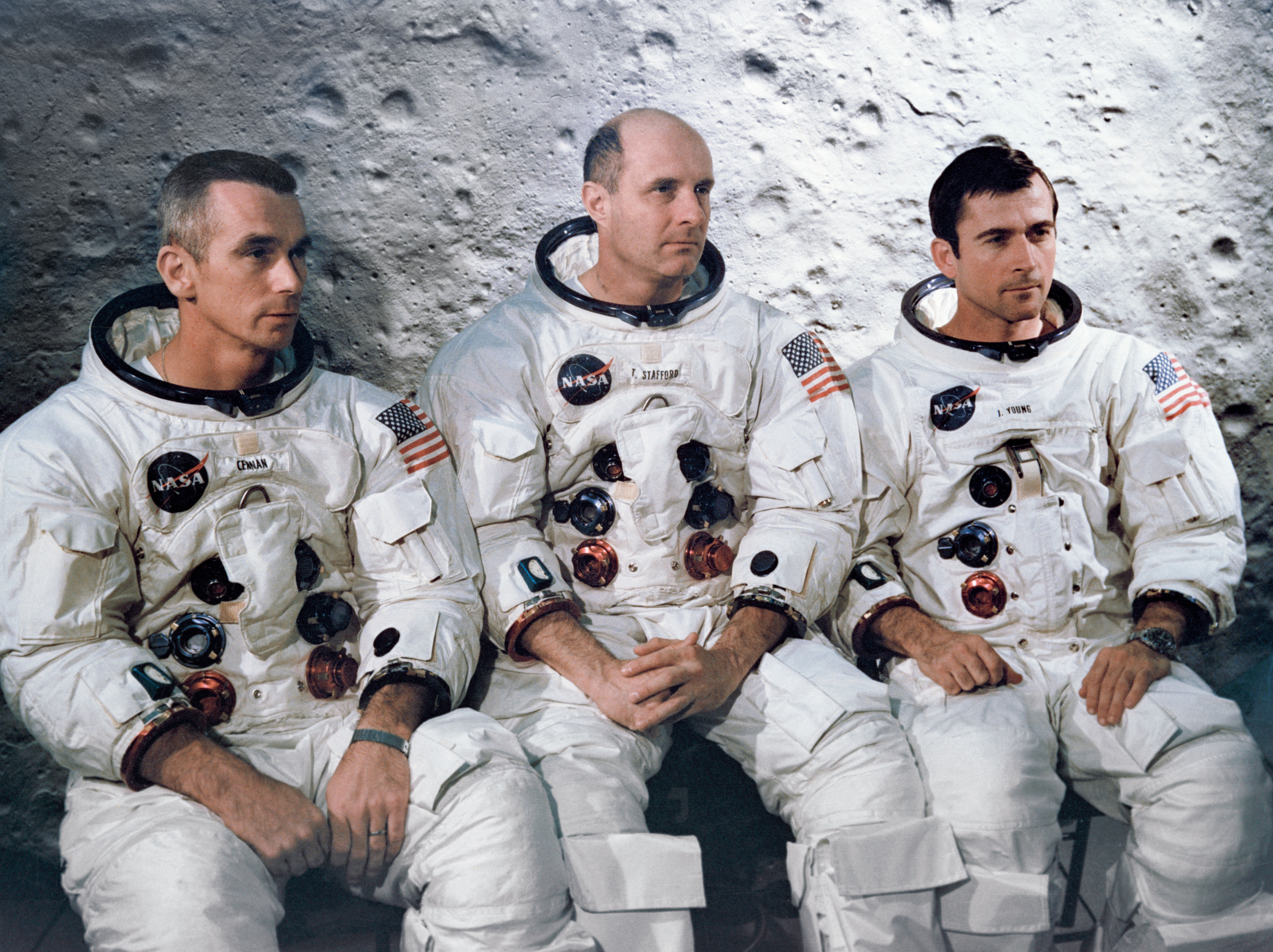 The prime crew of the Apollo 10 lunar orbit mission at the Kennedy Space Center. They are from left to right: Lunar Module pilot, Eugene A. Cernan, Commander, Thomas P. Stafford, and Command Module pilot John W. Young.